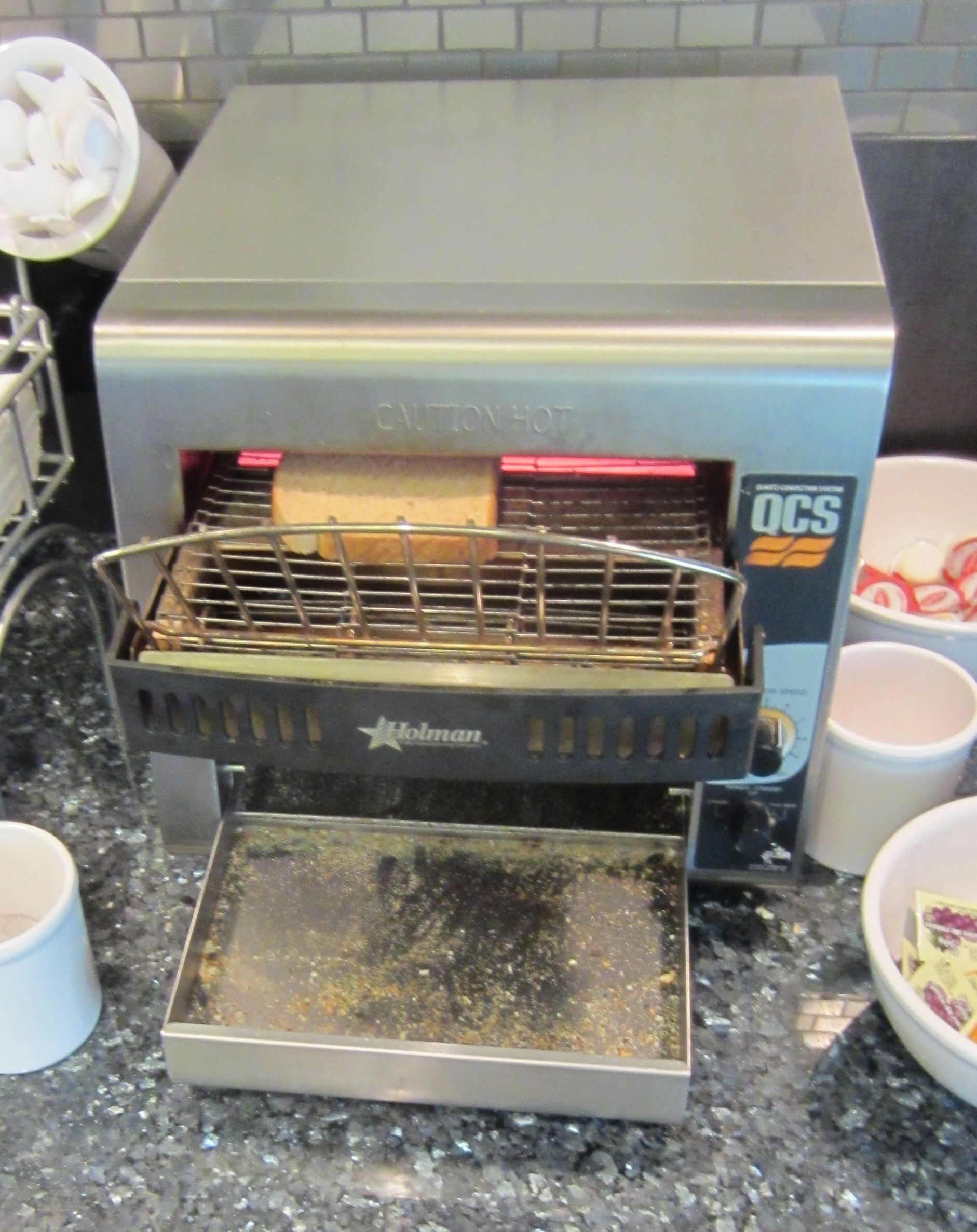 A conveyor toaster is used in restaurants and institutions to prepare toast more quickly than a pop-up toaster. Bread is placed on the conveyor which slowly carries it past quartz halogen heating elements; the completed toast falls to the tray below. This model can make around 500 pieces per hour and uses 2800 watts. The heating elements (glow visible in picture) can be turned down when no bread is in the unit, saving energy. Photographed at the Comfort Inn, Kelowna BC September 11, 2012